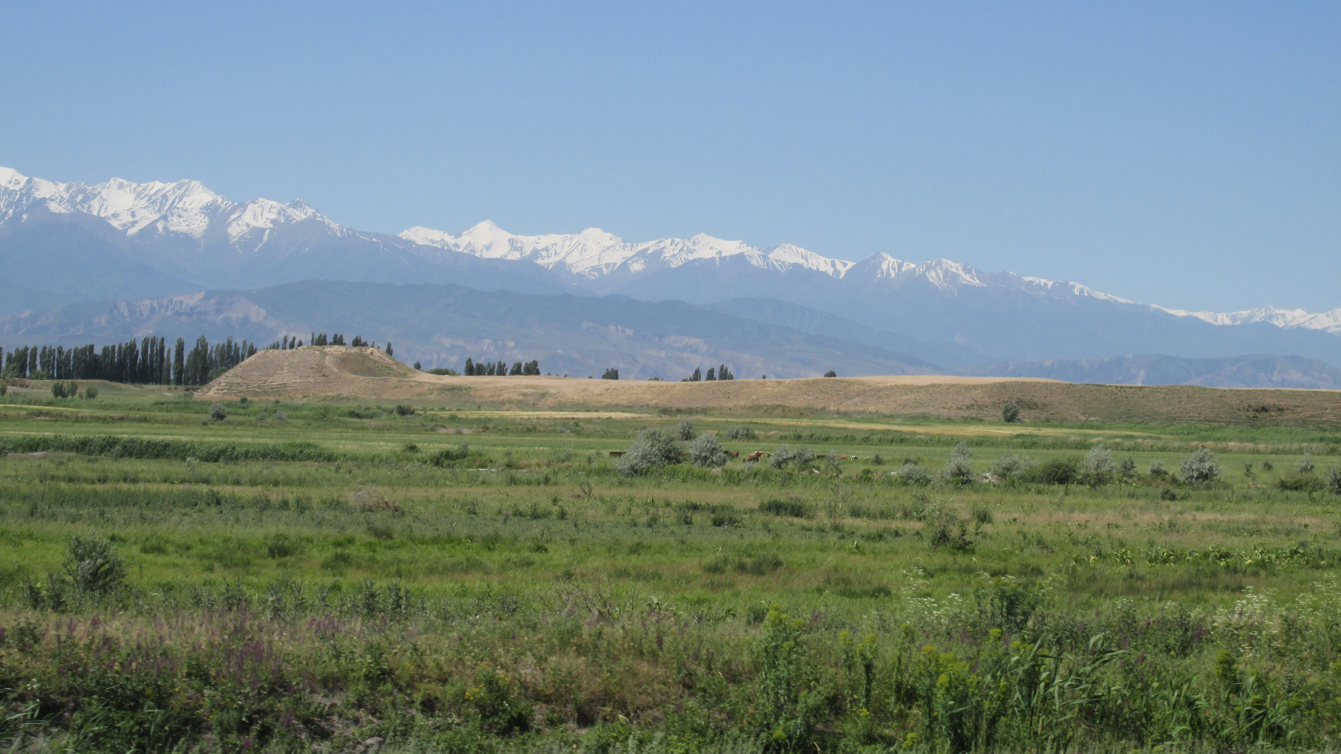 The ruins of ancient city of Nevkat, northern Kyrgyzstan.